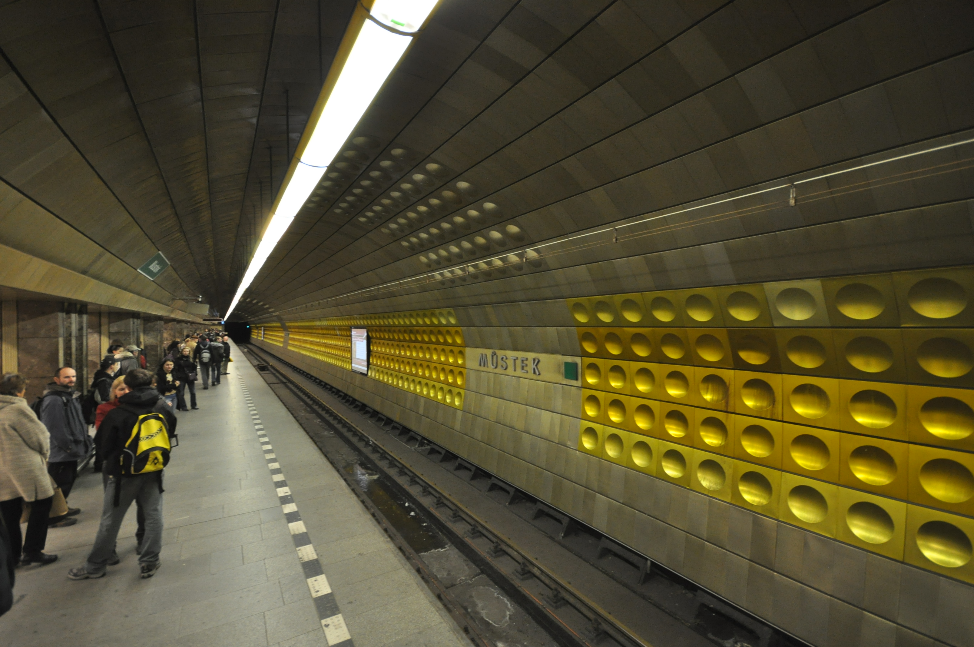 Můstek is a Prague Metro station (in fact two stations connected with system of corridors) that serves as an interchange point between lines A and B. It wasn't until the excavation of the area that a medieval bridge was discovered and the meaning of the name Můstek ("Little Bridge") fully understood. Můstek A (completed in 1978) has two exits through escalator tunnels (one on both ends of the middle aisle) with one vestibule below lower (NW) end of the Wenceslas Square (the preserved medieval bridge can be seen here) and the other below the central part of the square. A system of corridors connects the station of Line A with station of Line B located roughly in the same location, but several metres deeper. Můstek B (completed in 1985) has one escalator tunnel with a vestibule below Jungmann Square